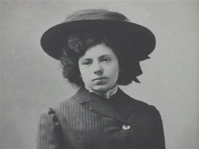 Russian poet and writer Vera Inber in Odessa.